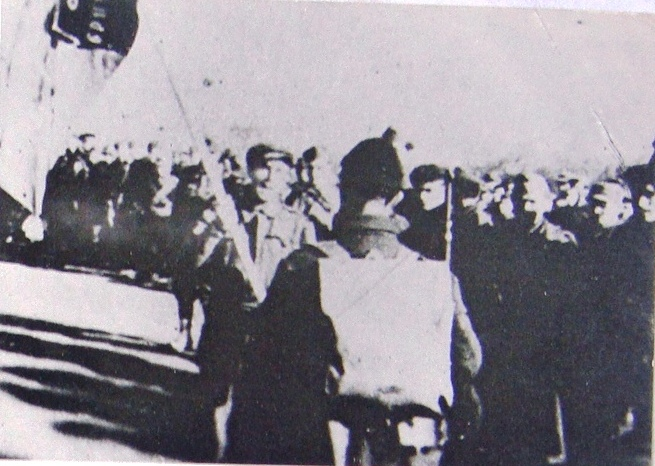 Forming of II Macedonian Assault Brigade, December 20, 1943 in the village Fushtani, Aegean Macedonia. This media file is produced by Wikipedian in Residence in Category:Wikipedian in Residence at DARM in 2016.